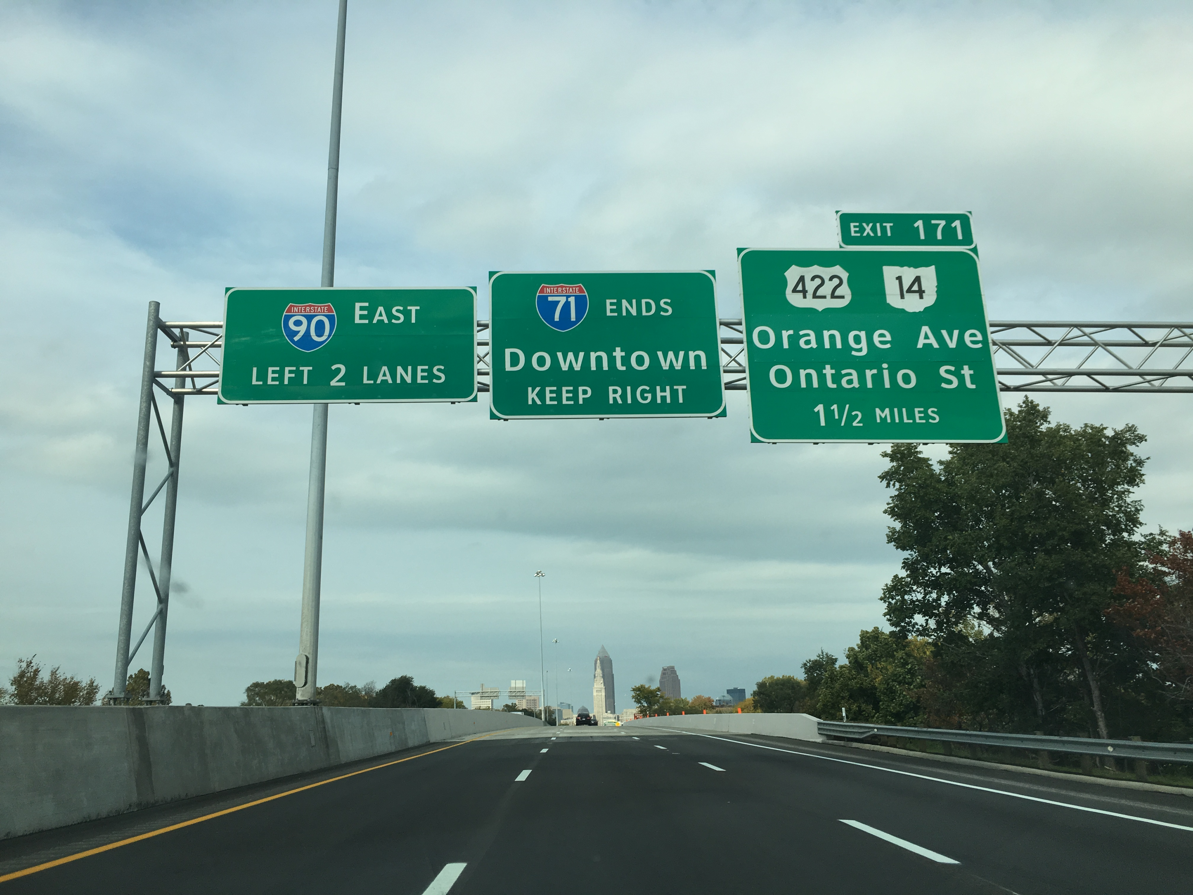 Northern terminus of Interstate 71 in downtown Cleveland, where it meets I-90. Terminal Tower, Key Tower, and 200 Public Square can be seen in the background